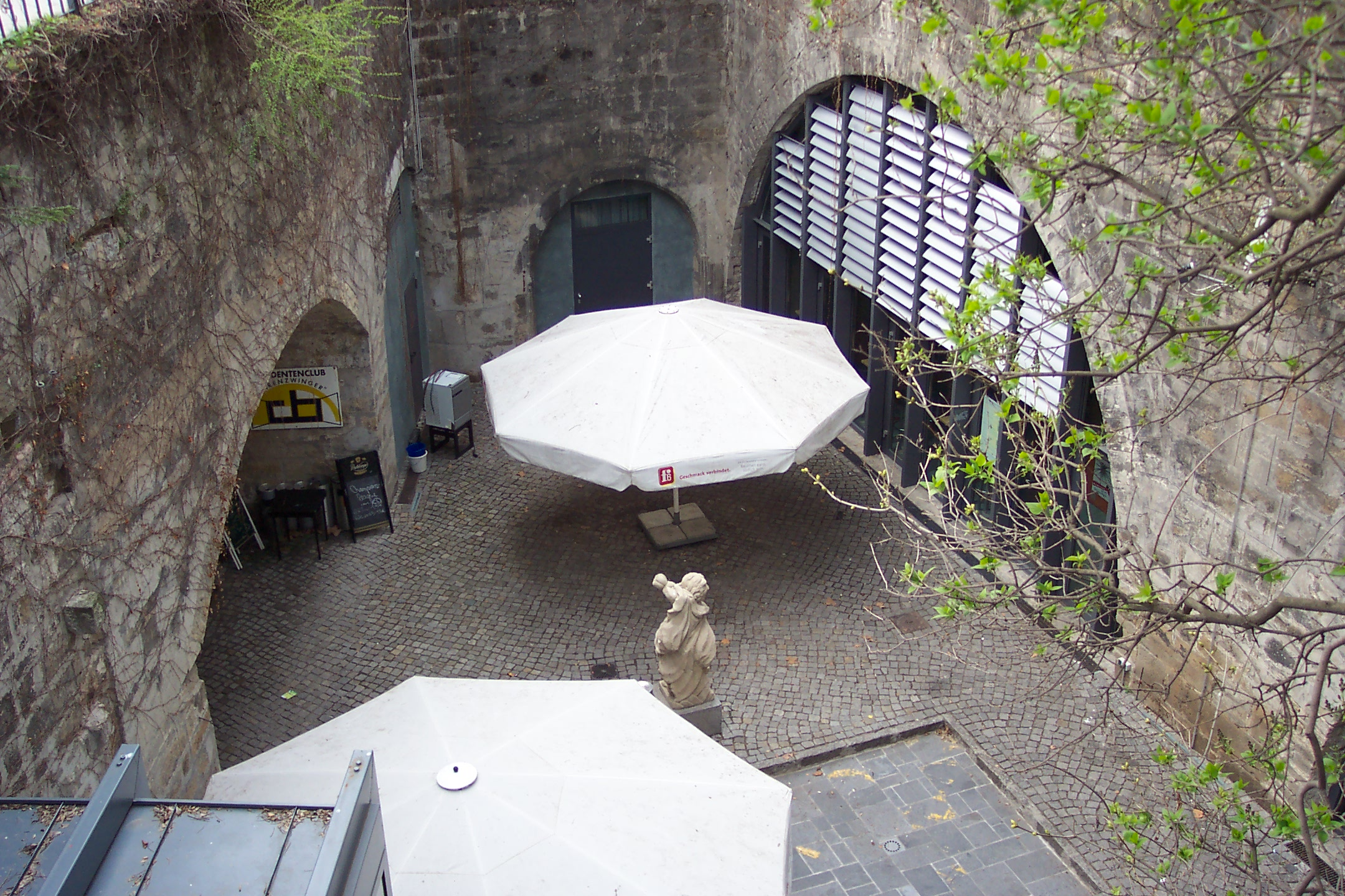 Bärenzwinger, Dresden, Germany. View of the inner courtyard.